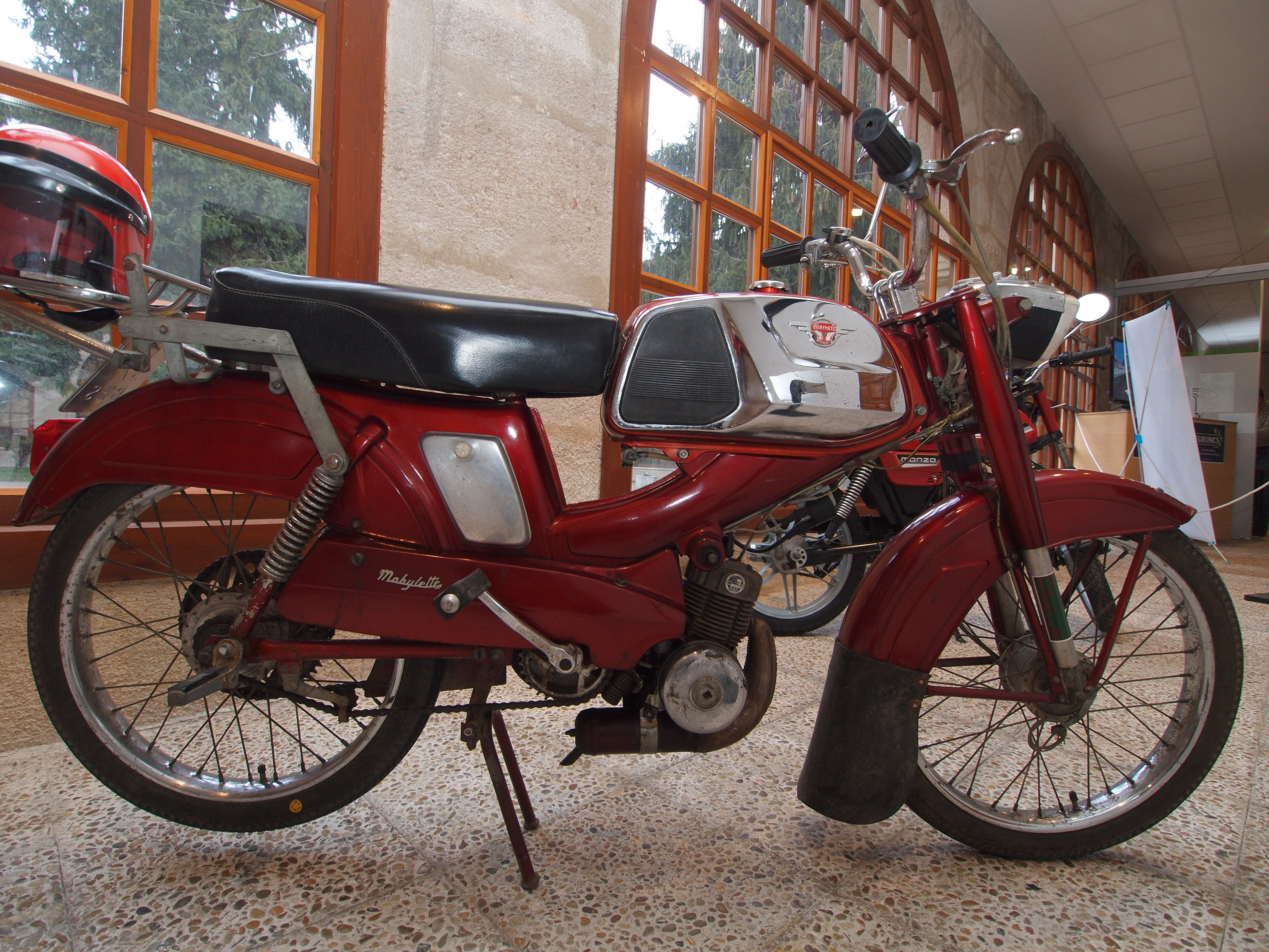 Mobylette SPR 50cc moped (1969) in the II Exhitition "Toda una Vida en Moto" of the Asociacion Motociclista Zamorana (Zamora, Spain 2012)